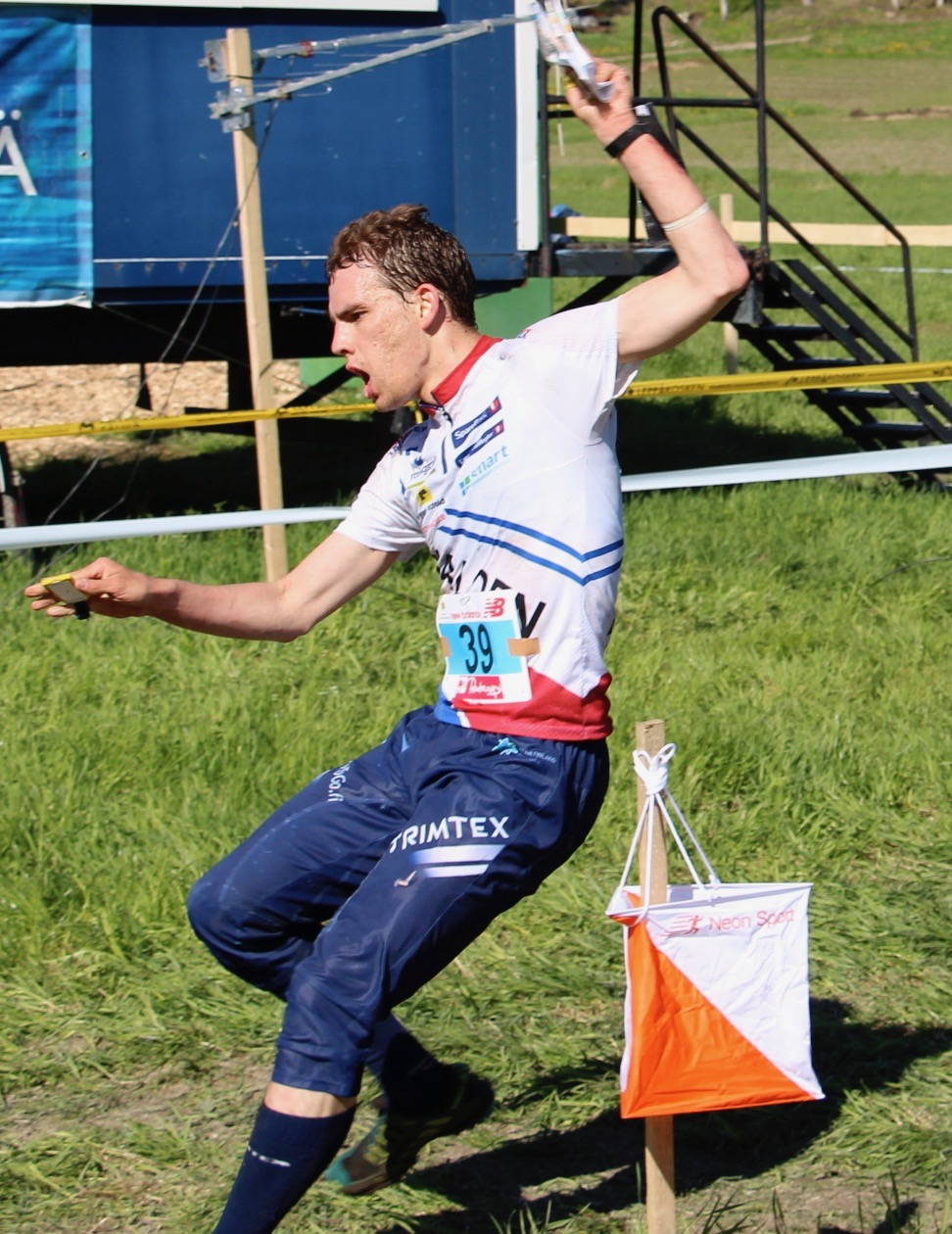 Finnish orienteer Fredric Portin wins the Finnish Championships in middle distance in Ikaalinen May 24th 2015.